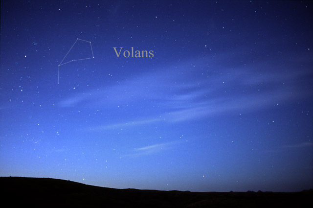 The constellation of Volans, the flying fish, as it can be seen by the naked eye